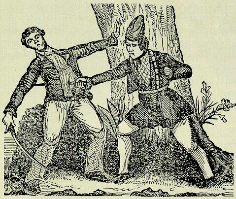 Read, Mary, Female Pirate of the Caribbean, 1842 woodcut.